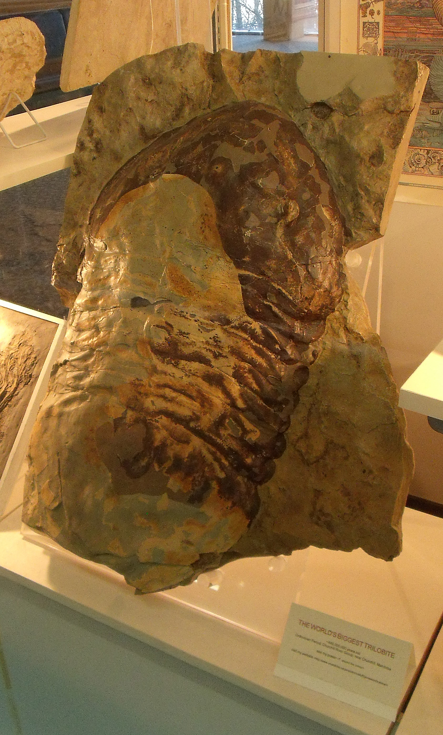 Cast of Isotelus rex. Churchill Manitoba. 2 foot long replica housed at the University of Manitoba. Original specimen is in the Manitoba Museum. The original specimen was recovered the intertidal zone of Hudson Bay.